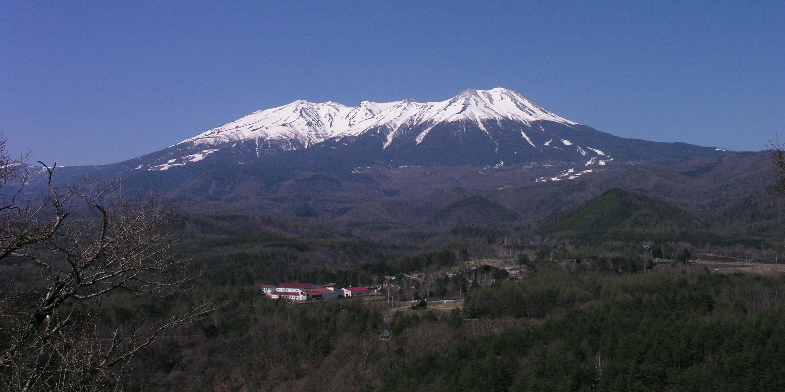 Mount Ontake as seen from the ENE. Shot at Kuzo Pass of the Route 361.